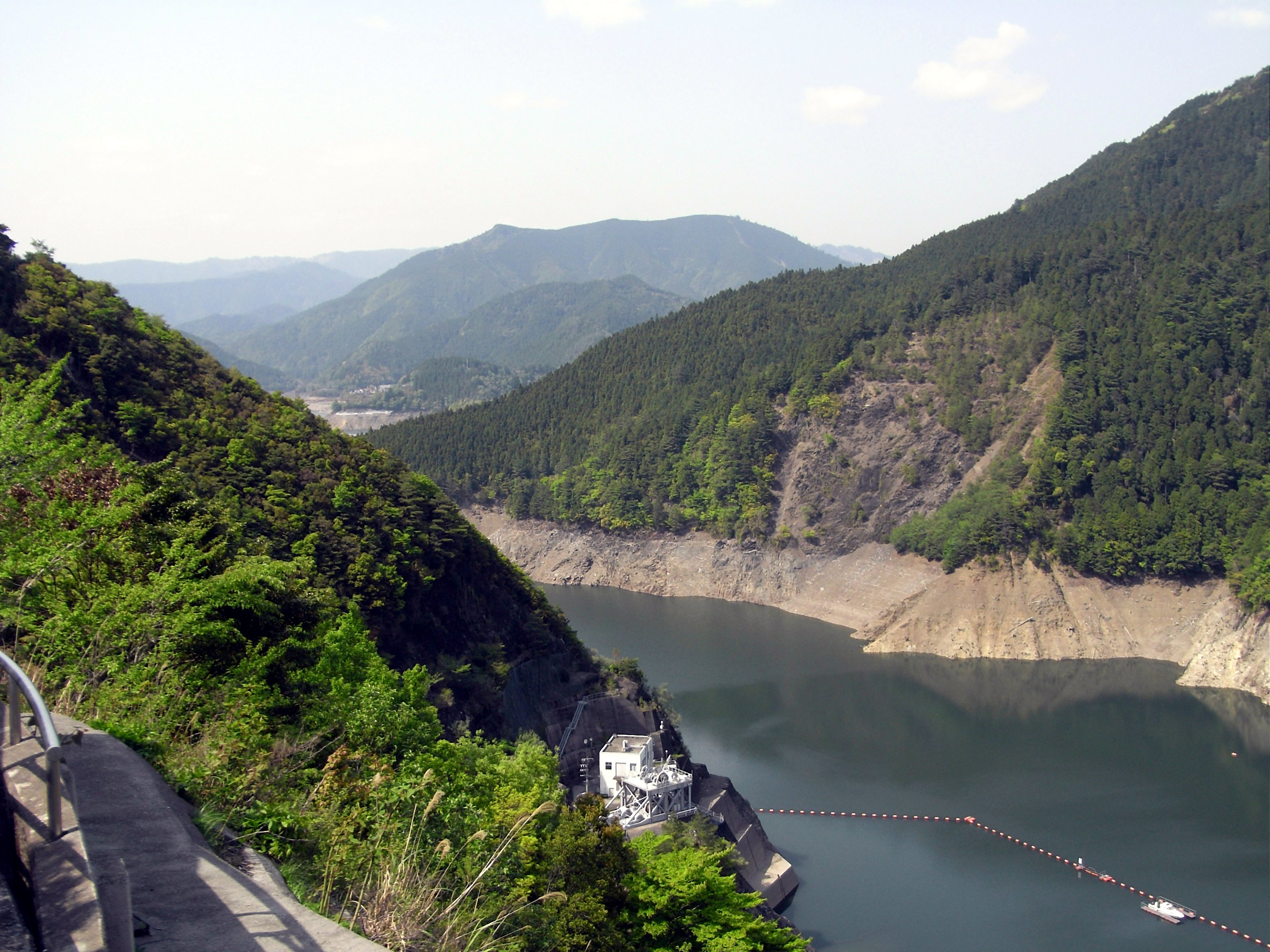 Yanase Reservoir(Naharigawa river/Kochi Pref./Japan)